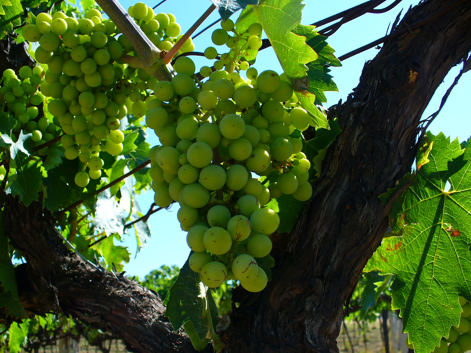 Trebbiano grapes grown in the Italian wine region of Abruzzo. Also visible in this pick is the wine trellising wires among the vines.